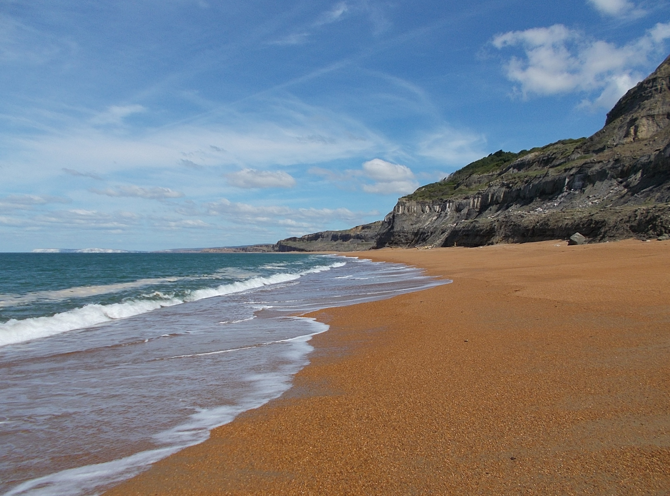 Chale Bay, Isle of Wight, UK